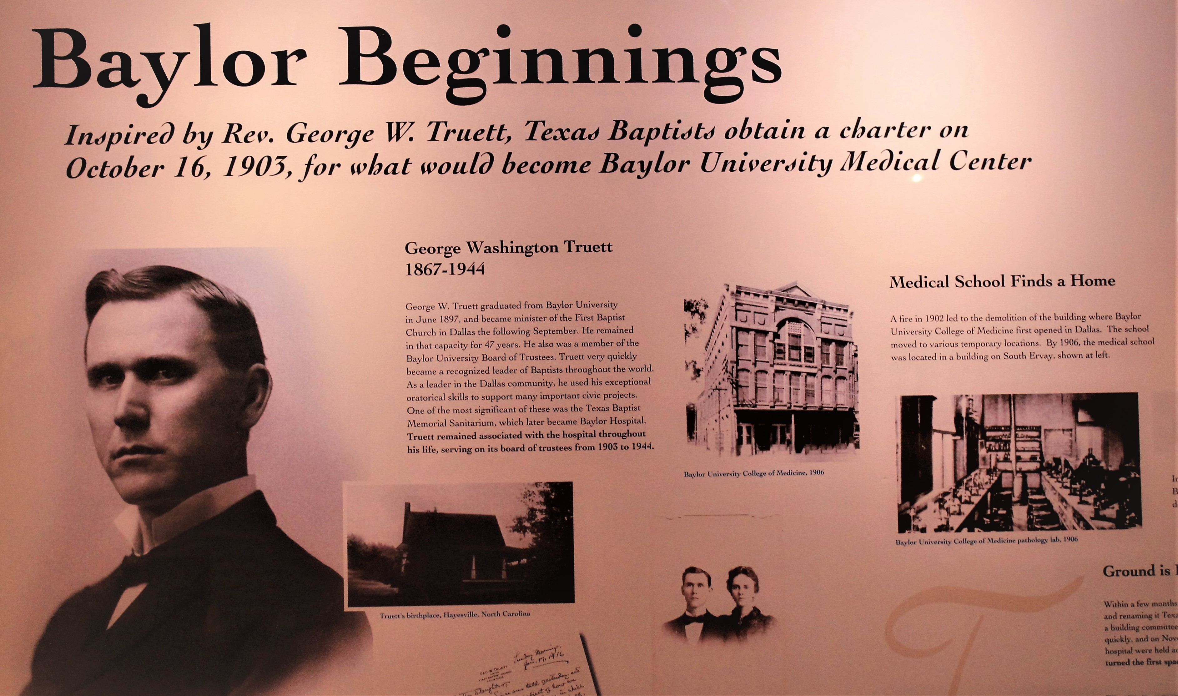 Poster "Baylor Beginnings" with the Rev. George Washington Truett